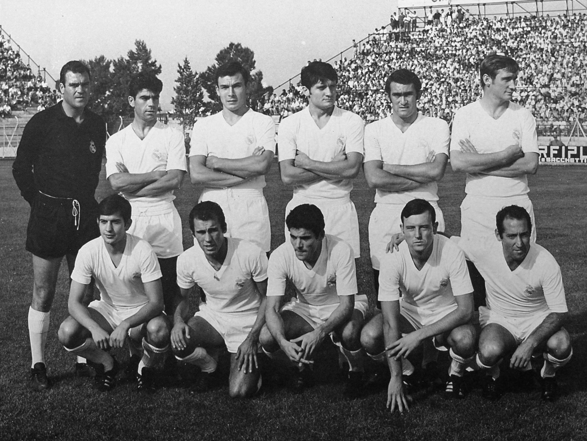 Taranto (Italy), Salinella Stadium, September 8, 1968. A line-up of Real Madrid C.F. took to the field in the victorious friendly match versus A.S. Taranto (4-0).